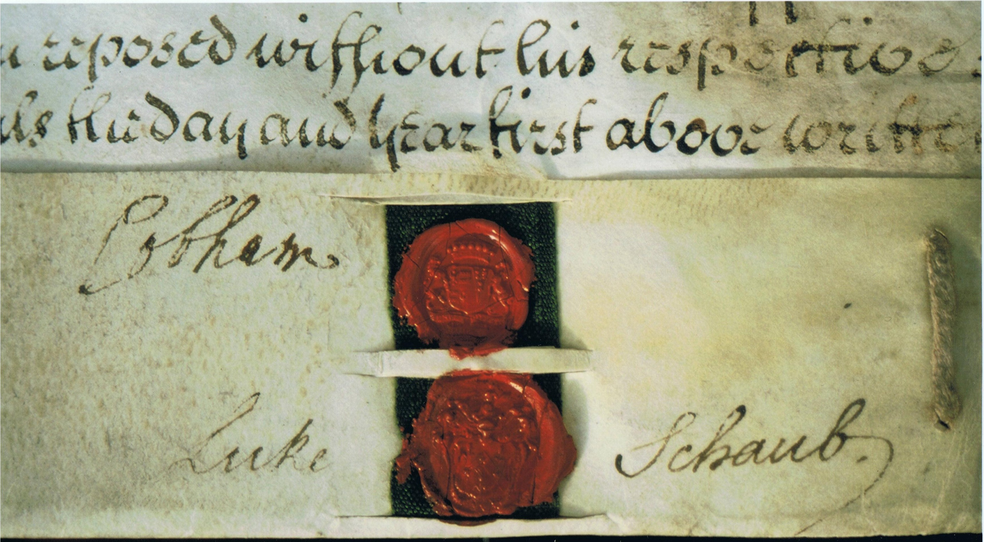 Scan of photo(R. de Salis) of part of 1734 marriage settlement of Jerome de Salis & hon. Mary Fane, Rodolph 16:05, 19 October 2007 (UTC)